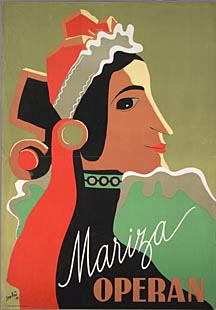 Poster for Mariza, operetta by Emmerich Kálman